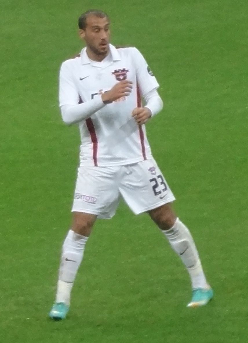 Cenk Tosun @ GS match